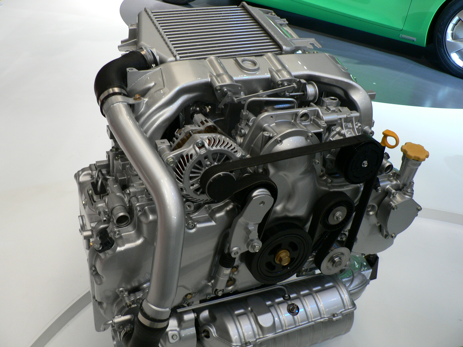 SUBARU BOXER DIESEL Tokyo Motor Show 2007